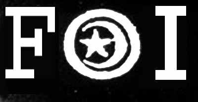 A logo of Fruit of Islam, the security branch of Nation of Islam